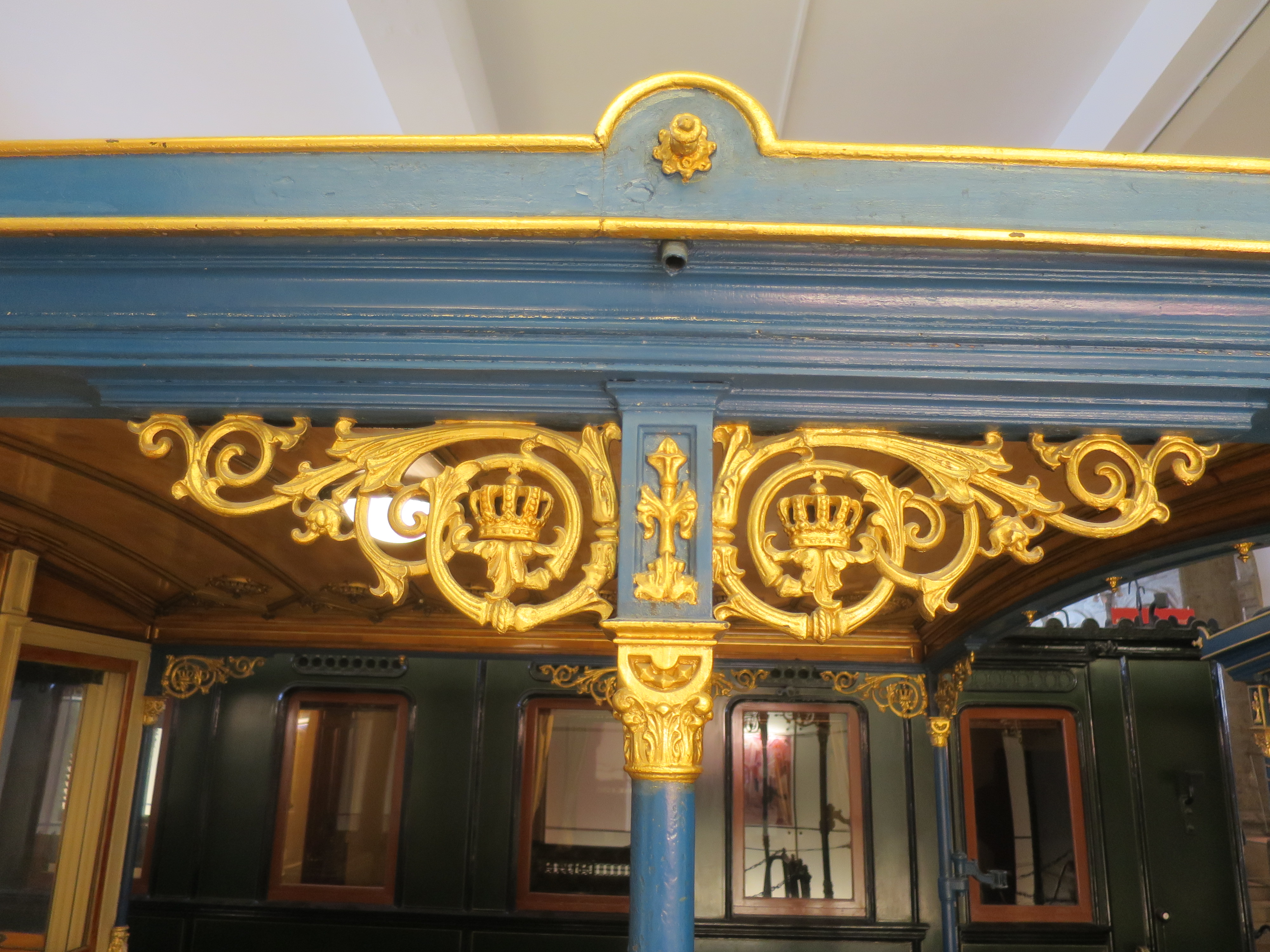 Detail of royal sloon of King Ludwigs II. of Bavaria